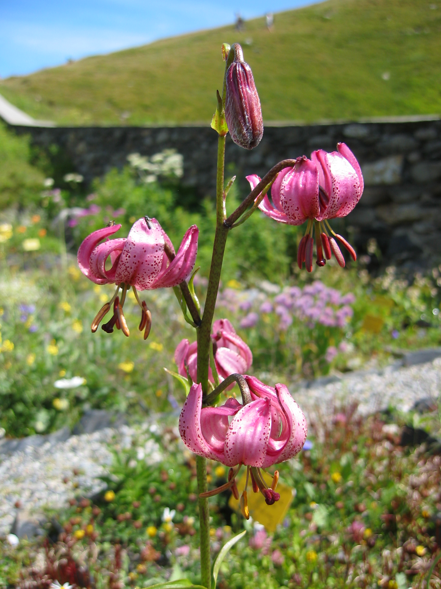 Lilium martagon